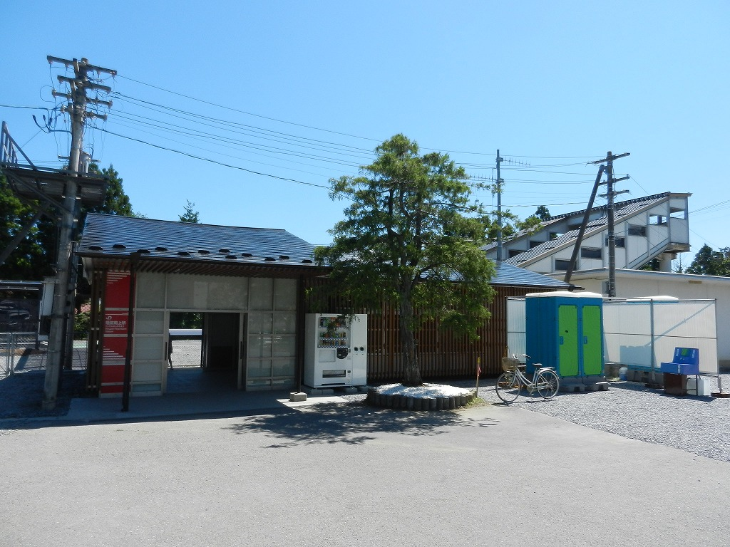 JR East Kesennuma Line Rikuzen-Hashikami Station (BRT)